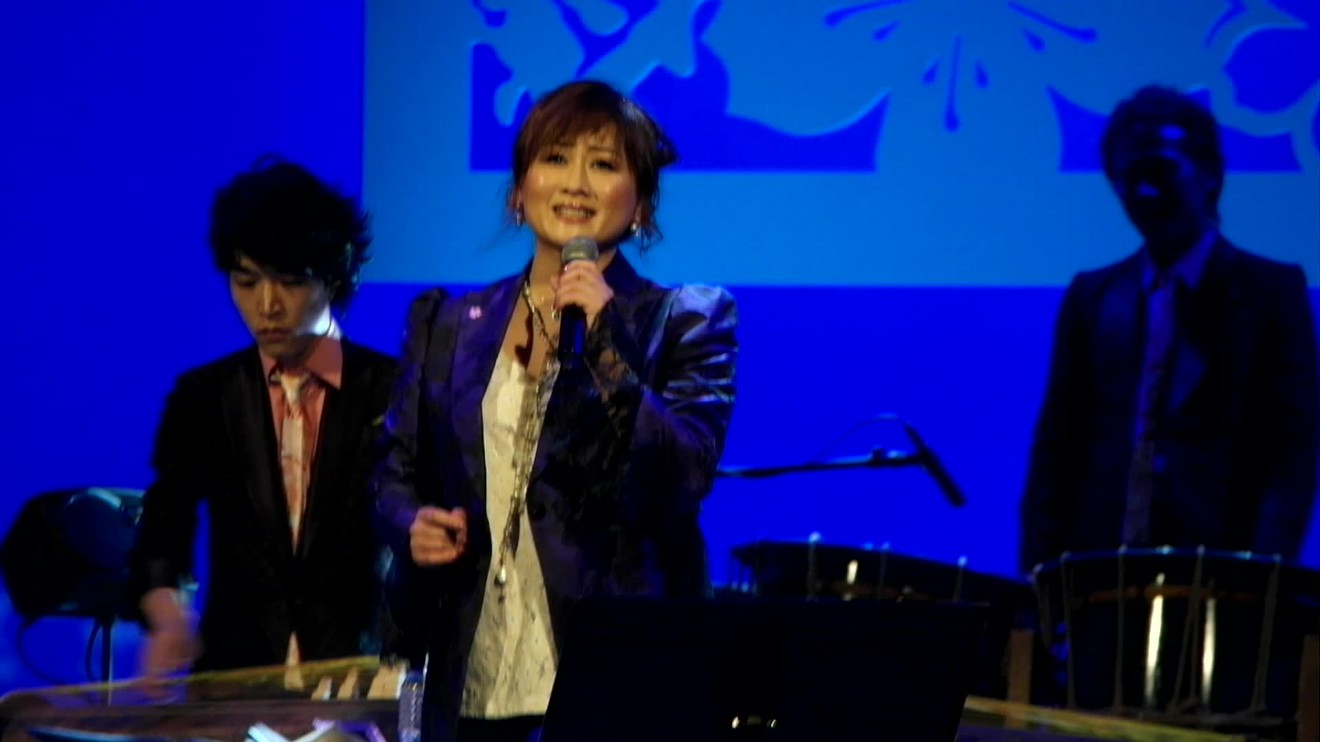 Cherry Blossom Festival opening ceremony 2015